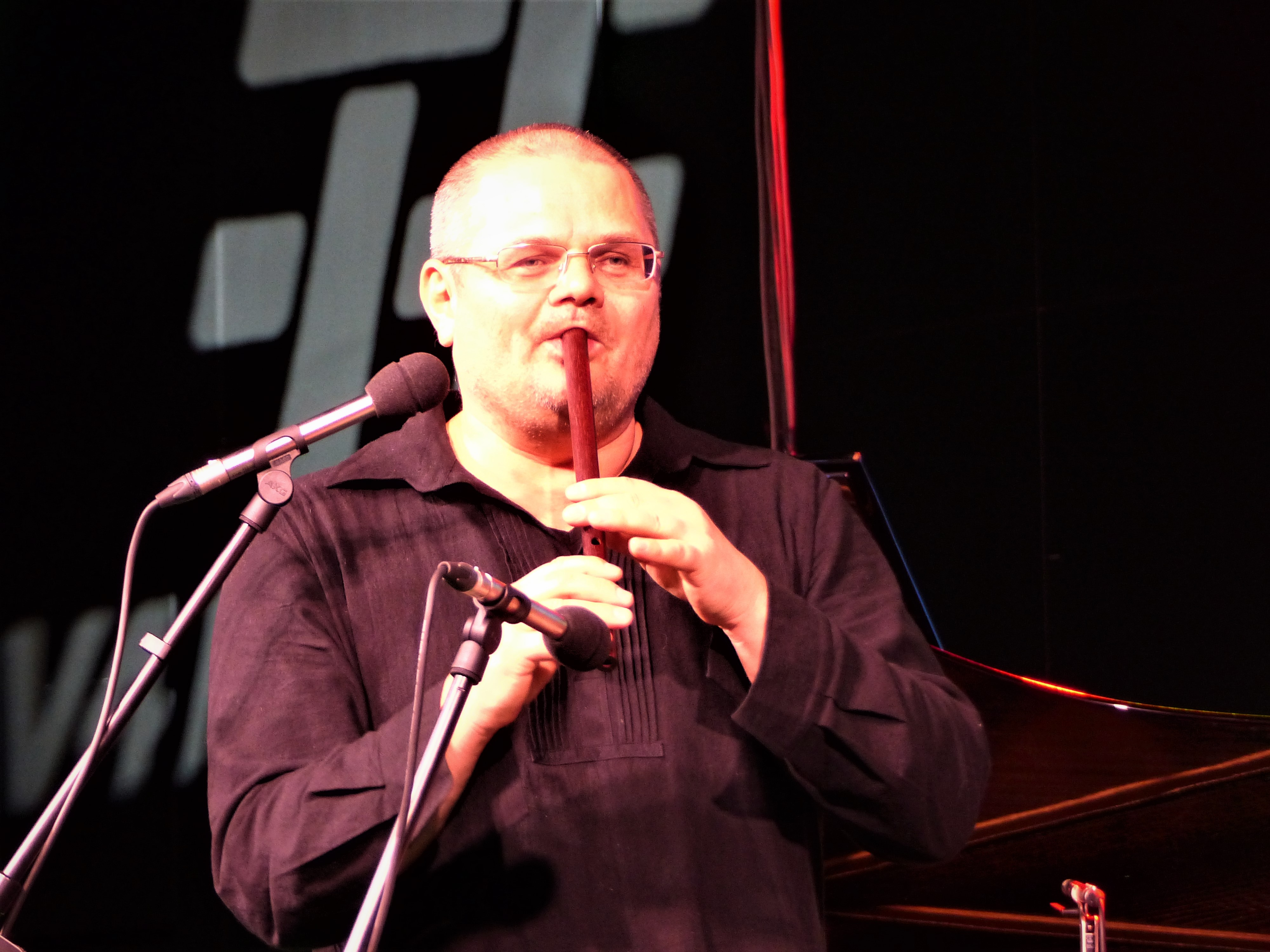 Szokolay Dongó Balázs. Várkert Bazár, Rendezvényterem. Budapest. V4 Concerts.